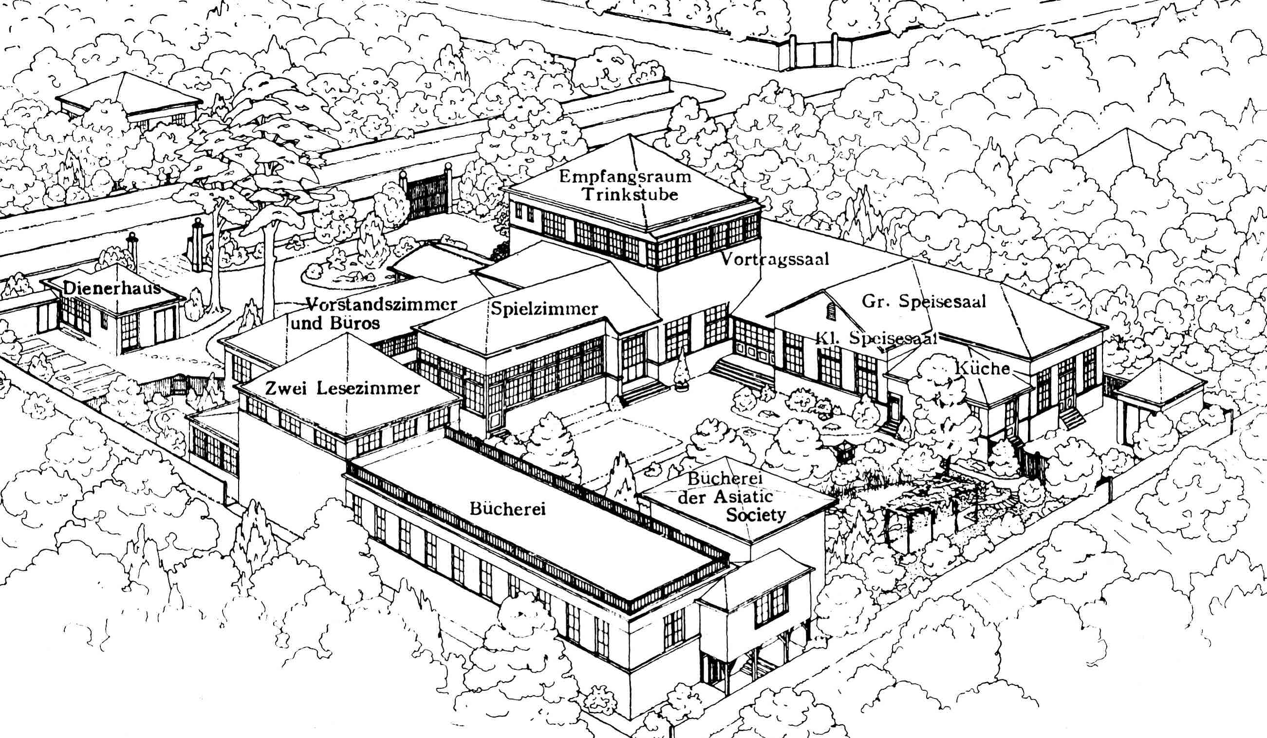 View of OAG House at Tôkyô, as planned 1914